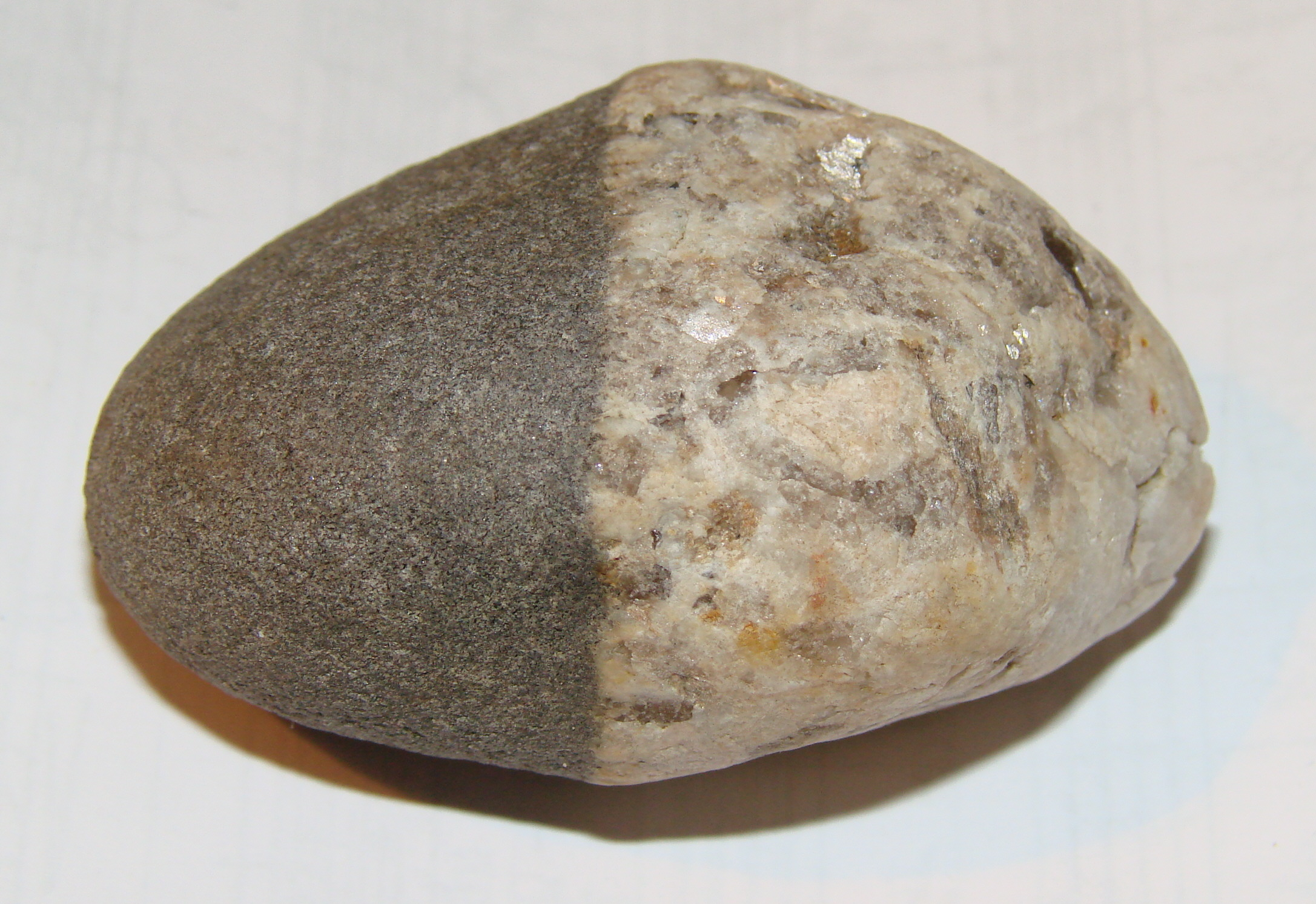 Two-parts stone